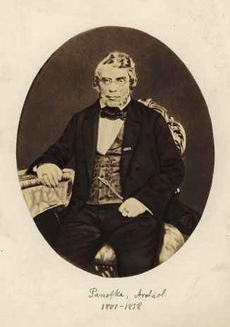 Theodor Sigismund Panofka (1801-1858), german Archaeologist, Professor in Berlin